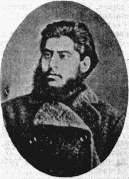 Mikhail Chikaidze (1853-1897).